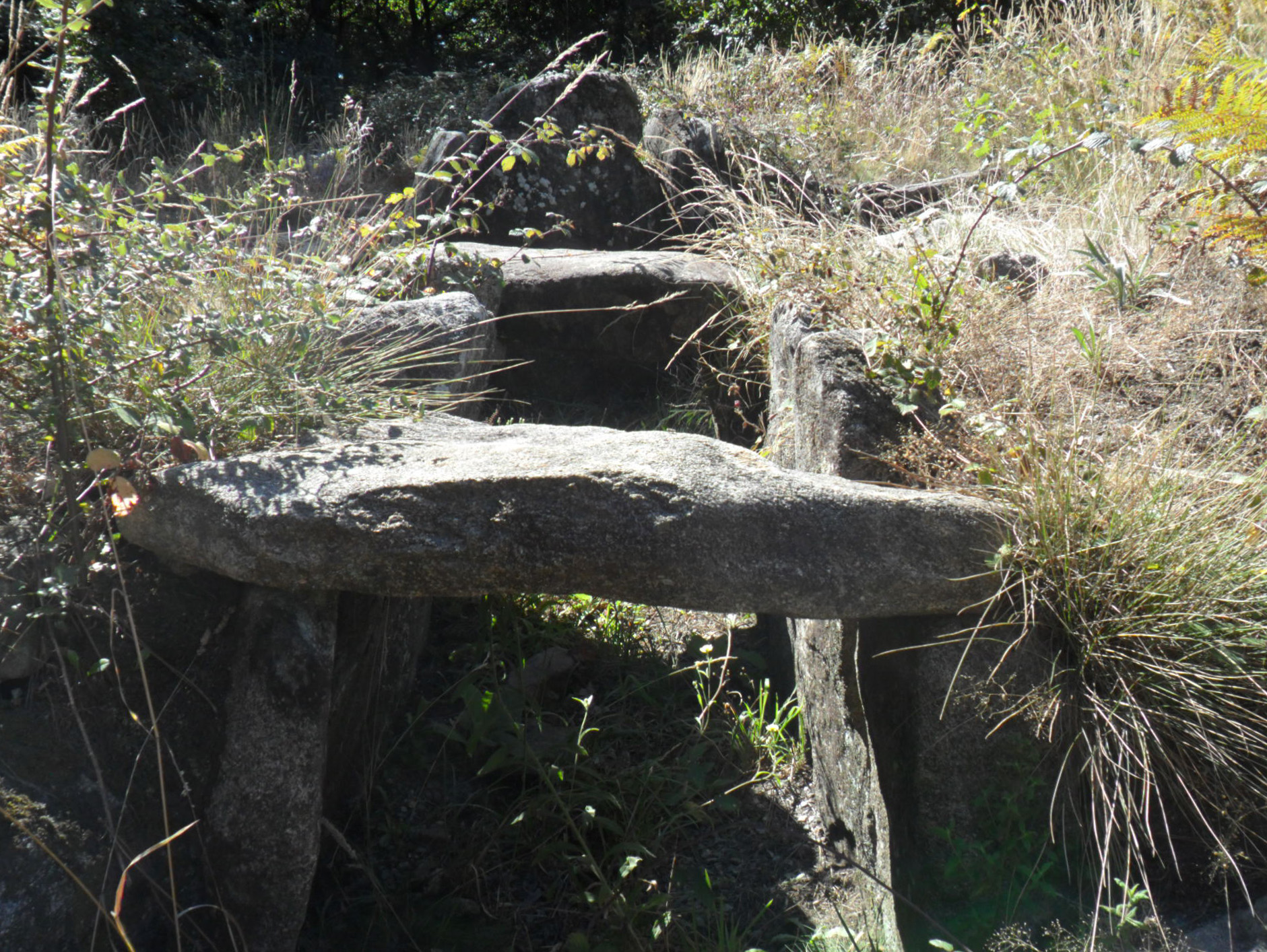 This file was uploaded for Wiki Loves Monuments in Portugal with the unique identifier 73183.